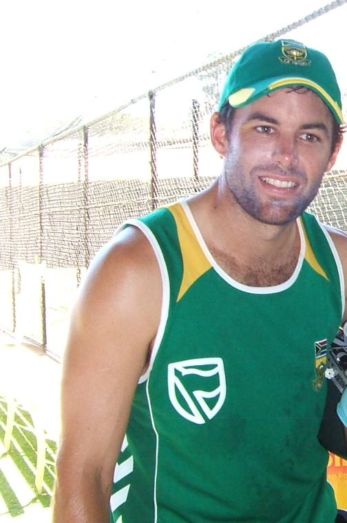 Neil McKenzie at a training session at the Adelaide Oval